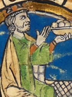 Miniature of King Æthelwulf of Wessex in the Genealogical roll of the kings of England